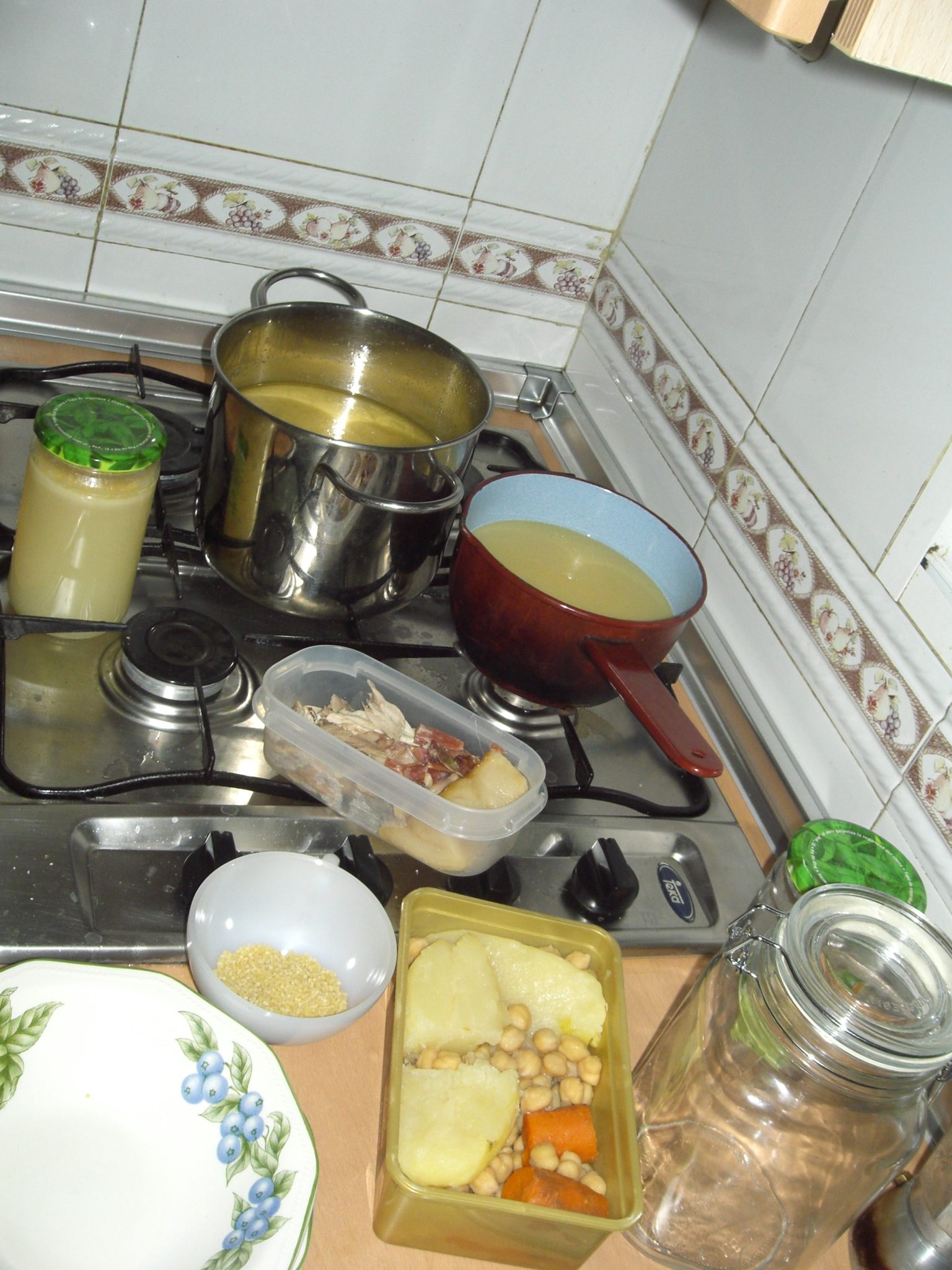 Typical stew in Andalusia, puchero.